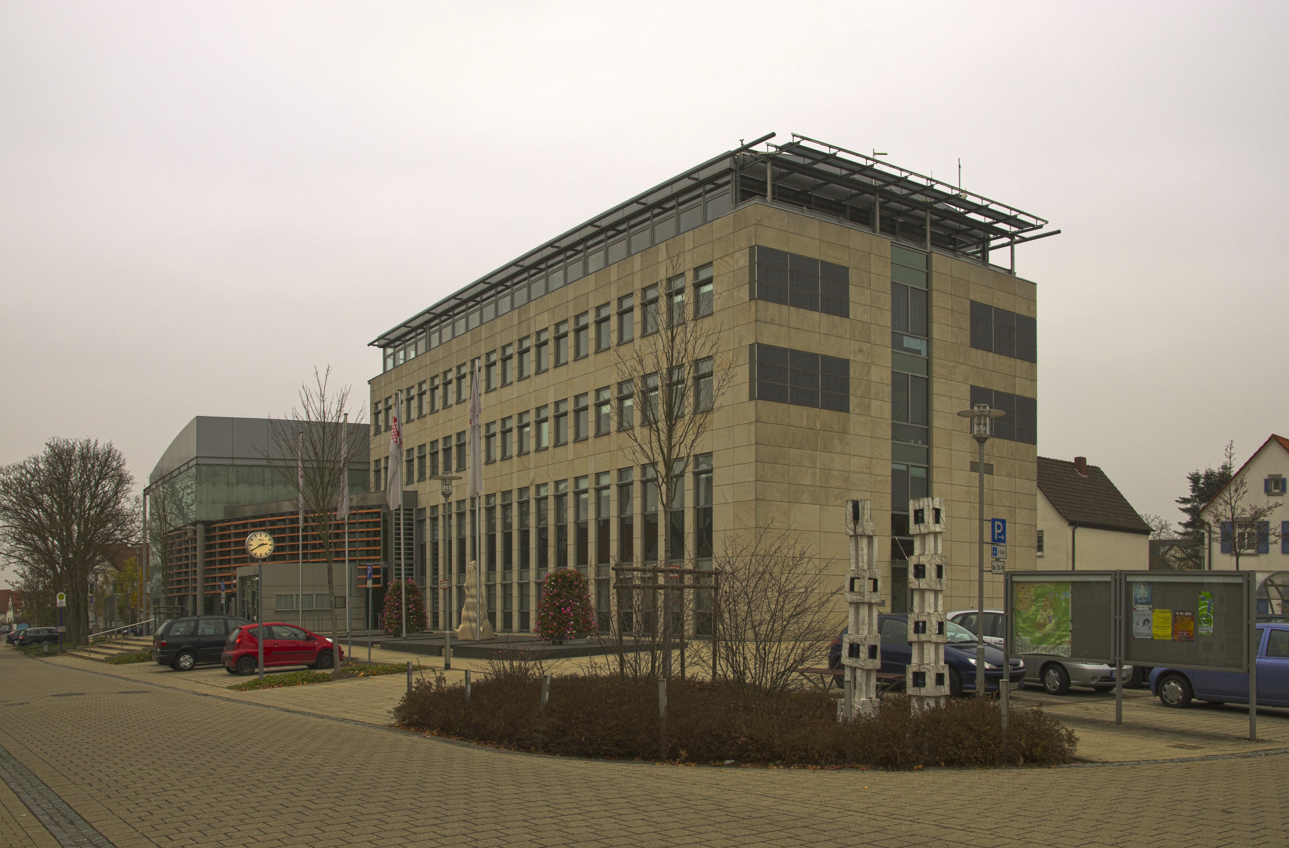 Town-hall Walldorf, Mörfelden-Walldorf, Hesse, Germany.